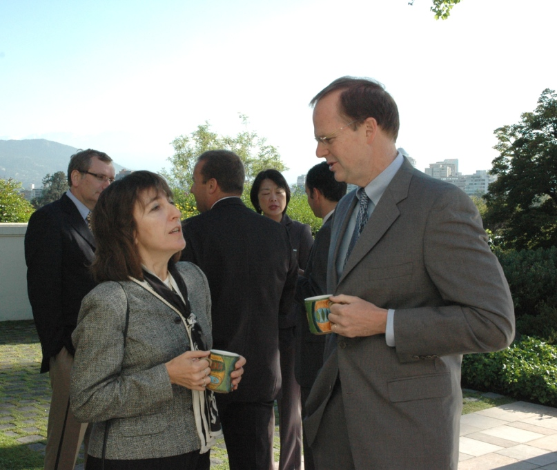 From description: "Dr. Wendy Freedman and U.S. Ambassador to Chile, Paul Simons" from "Ambassador Simons hosted Dr. Wendy Freedman and Dr. Patrick McCarthy of Carnegie Observatories". For more on the event, see the embassy's news article.